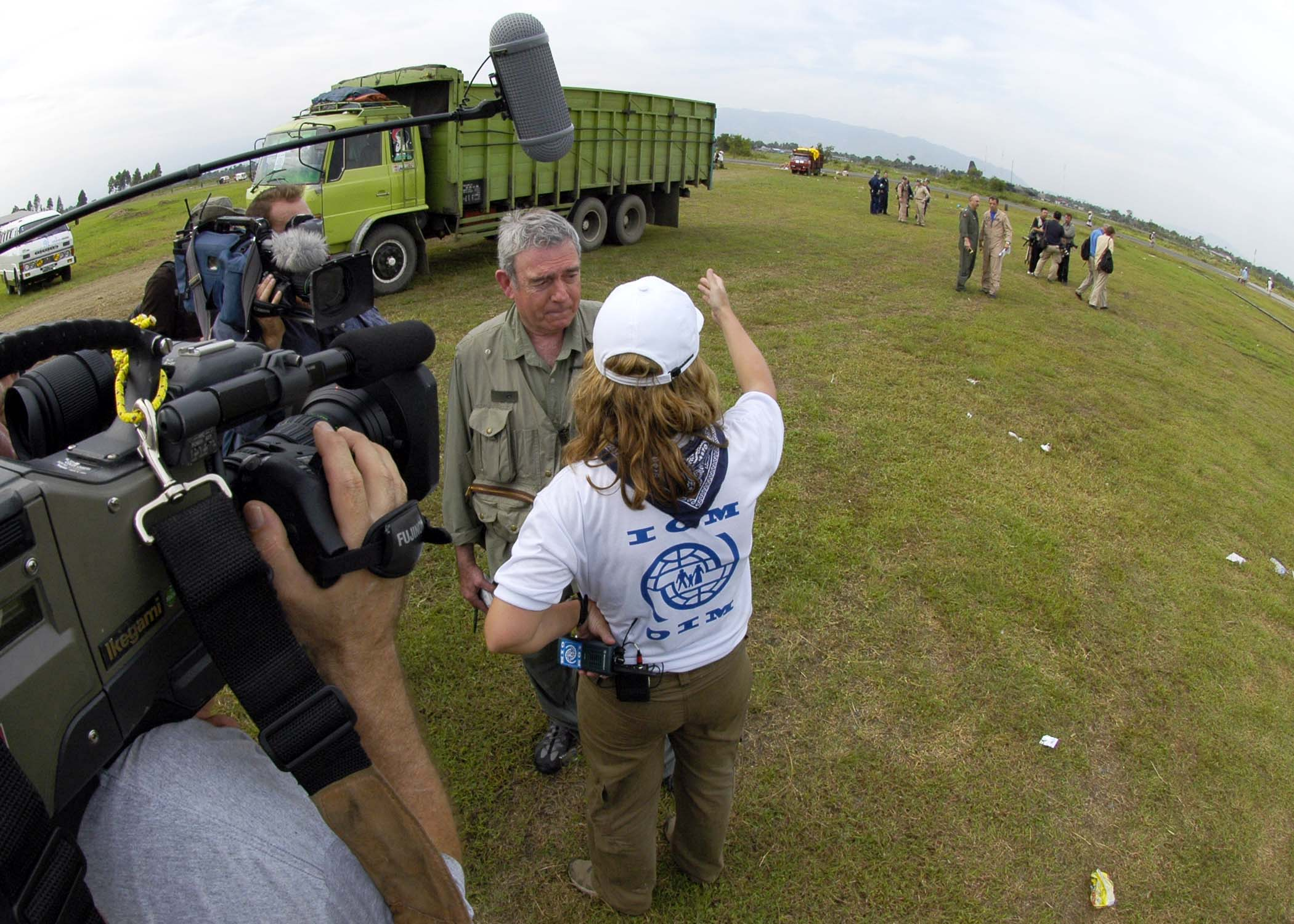 Aceh, Sumatra, Indonesia (Jan. 3, 2005) - CBS anchorman Dan Rather interviews one of the many International Organization for Migration (IOM) workers at the Sultan Iskandar Muda Air Force Base in Banda Aceh, Sumatra, Indonesia. Medical teams from USS Abraham Lincoln (CVN 72), Carrier Air Wing Two (CVW-2) and the IOM set-up a triage site located on Sultan Iskandar Muda Air Force Base. The two teams worked together with members of the Australian Air Force to provide initial medical care to victims of the Tsunami-stricken coastal regions. U.S. Navy photo by Photographer's Mate 2nd Class Elizabeth A. Edwards (RELEASED)